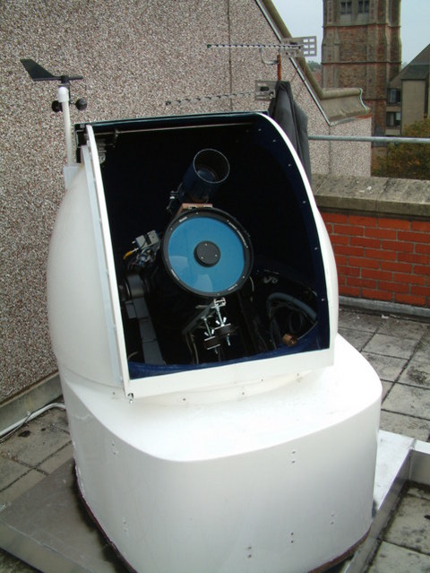 Author: D Futak Source URL: The Project Galileo observatory consists of a Technical Innovations Robodome, 10 inch Meade LX200 SCT main telescope, and 4 inch Skywatcher refracting telescope. The former has various imaging cameras attached, including: a Genesis16 homebrew CCD camera with KAF0401E imaging chip (for imaging nebulae, galaxies, comets & asteroids) Phillips Toucam Pro 740k webcam (for planetary imaging) 128-frame summing low-light CMOS-based camera, aka an Astrocam (for live web-based viewing of the night sky) The Skywatcher 'scope also has an Astrocam attached, along with a 0.5x focal reducer for wide-field imaging, yielding a field of view of about 0.5 degrees. The main 'scope backend contains a 7 position filter-wheel, which contains the following filters: clear, red, green, blue, Hydrogen alpha & a low-resolution diffraction grating for spectroscopy. More information about the project can be found in the Project Galileo wikipedia entry. Dez Futak